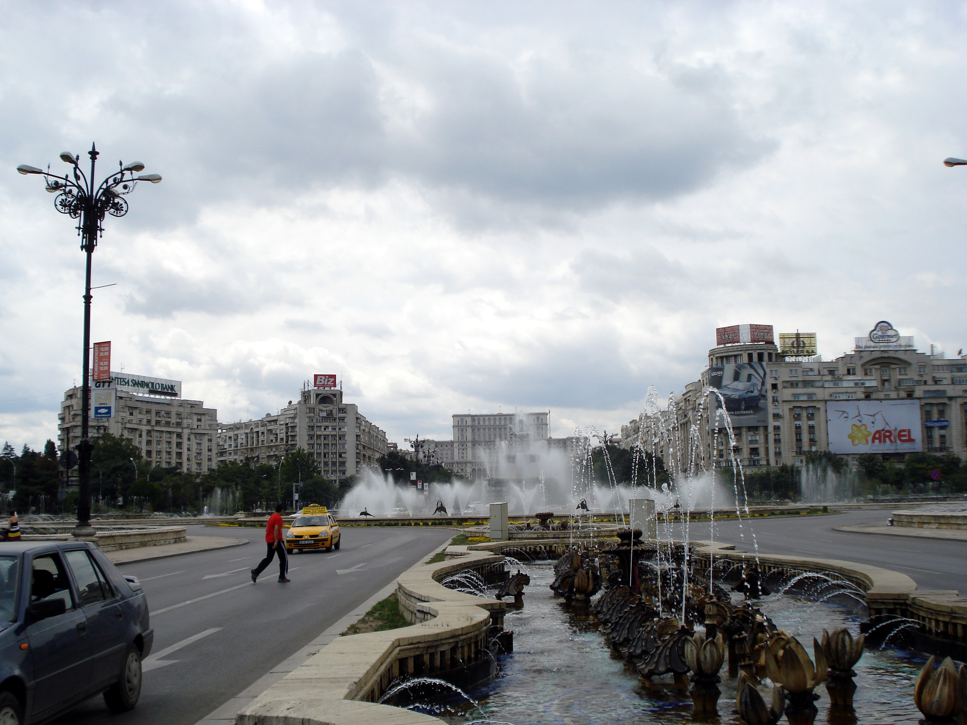 Unirii plaza in Bucharest